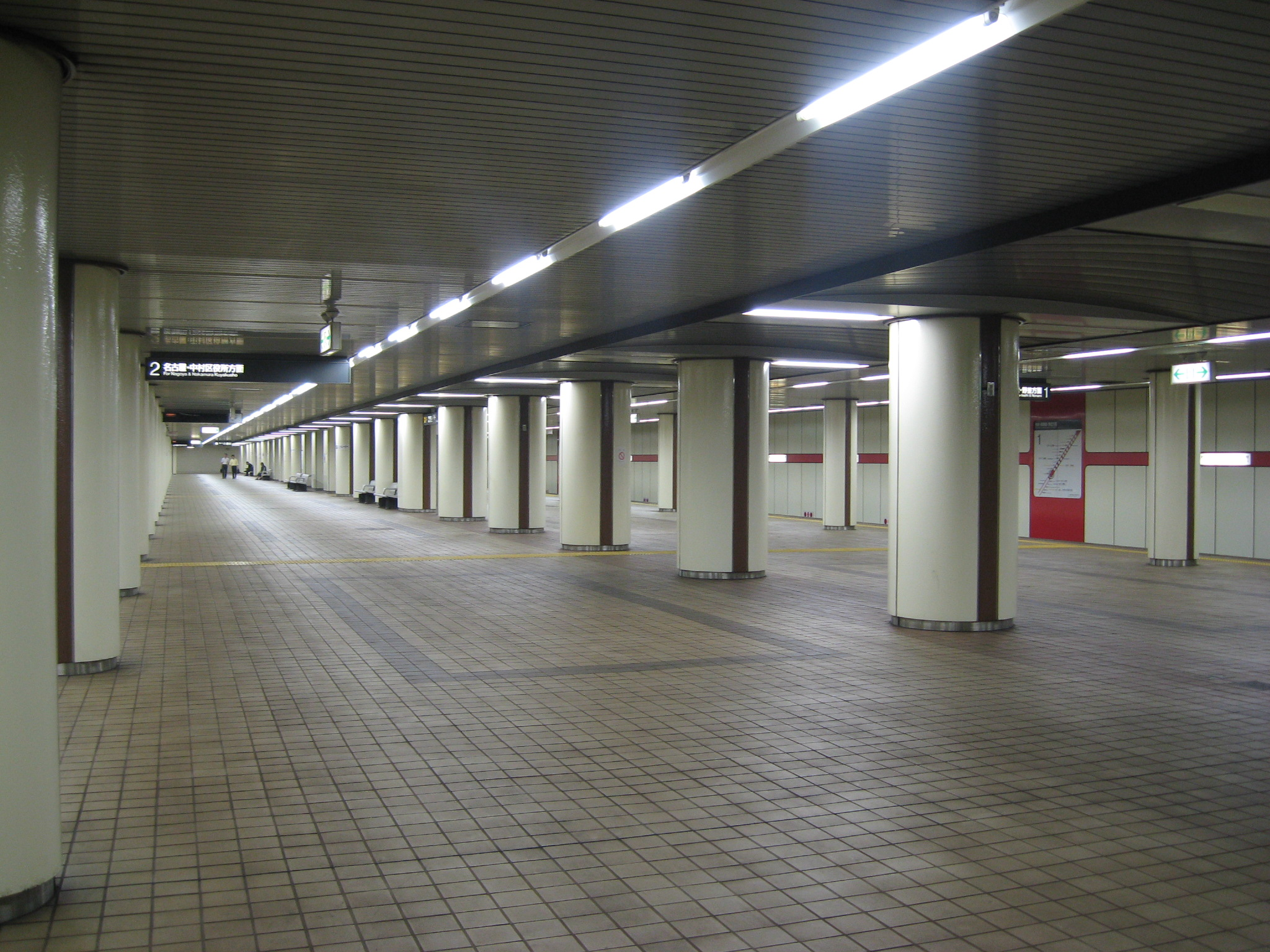 Wide Platform in Takaoka Station (Nagoya City Subway). width:18.9m